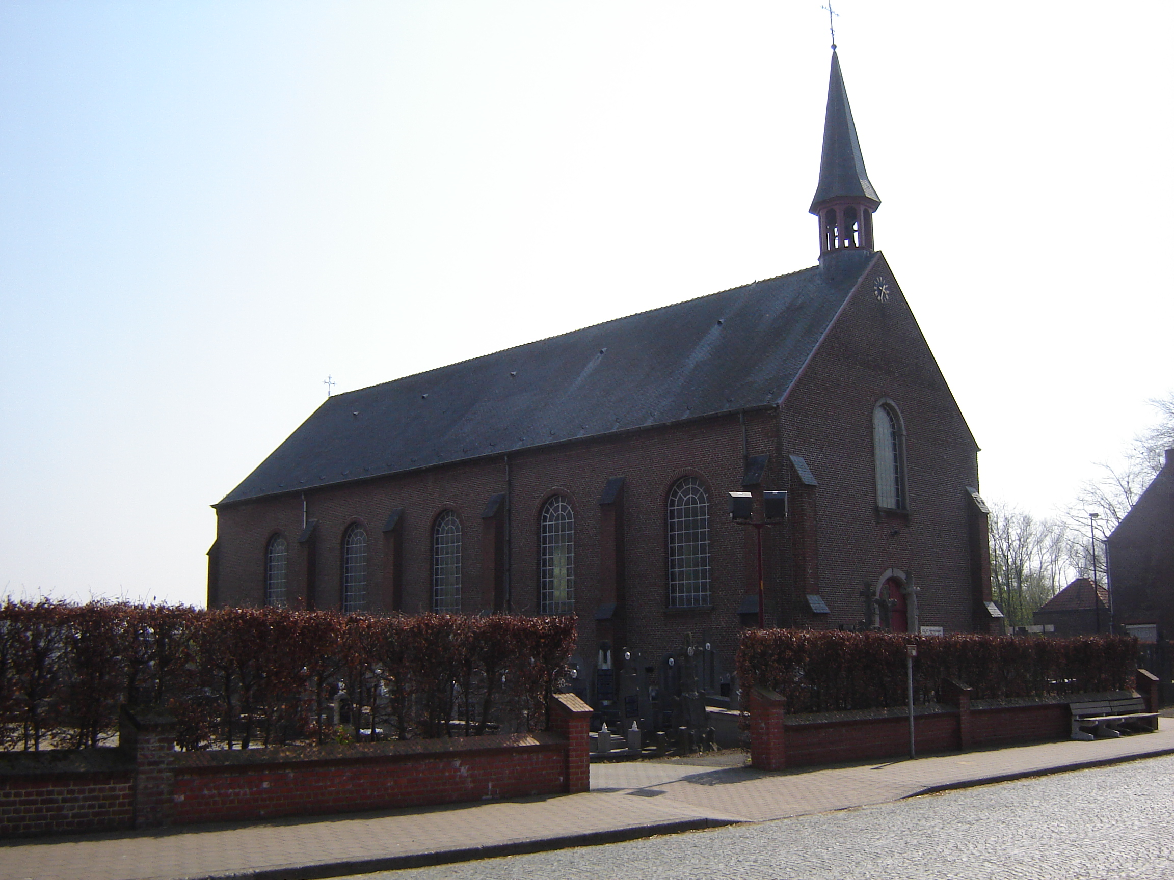 Church of the Assumption of Mary in Edewalle, in Handzame, Kortemark, West-Flanders, Belgium